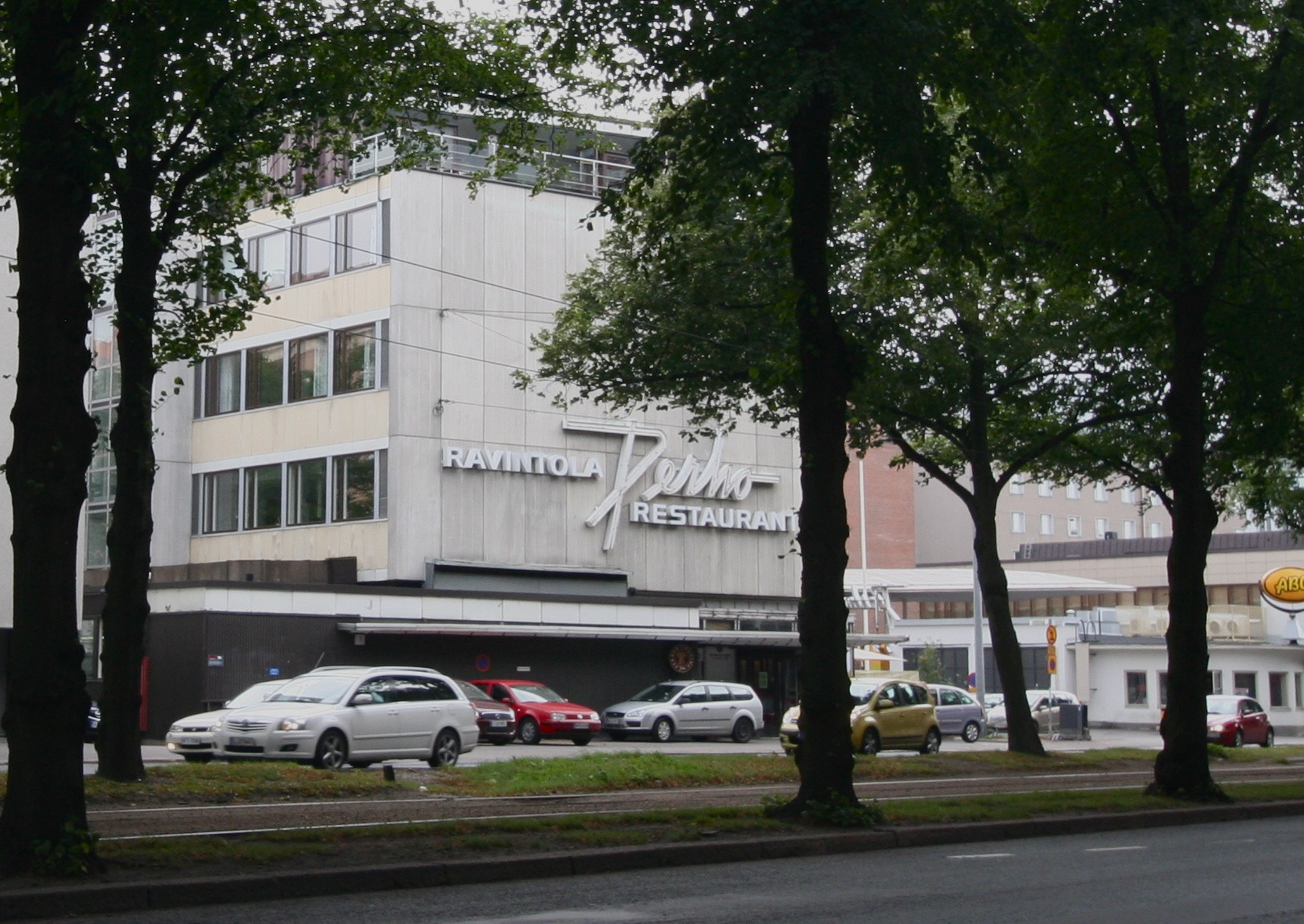 Restaurant Perho in Helsinki